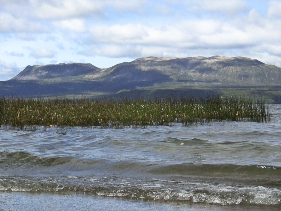 Picture of Lake Tarewera and Mt. Tarawera behind it.